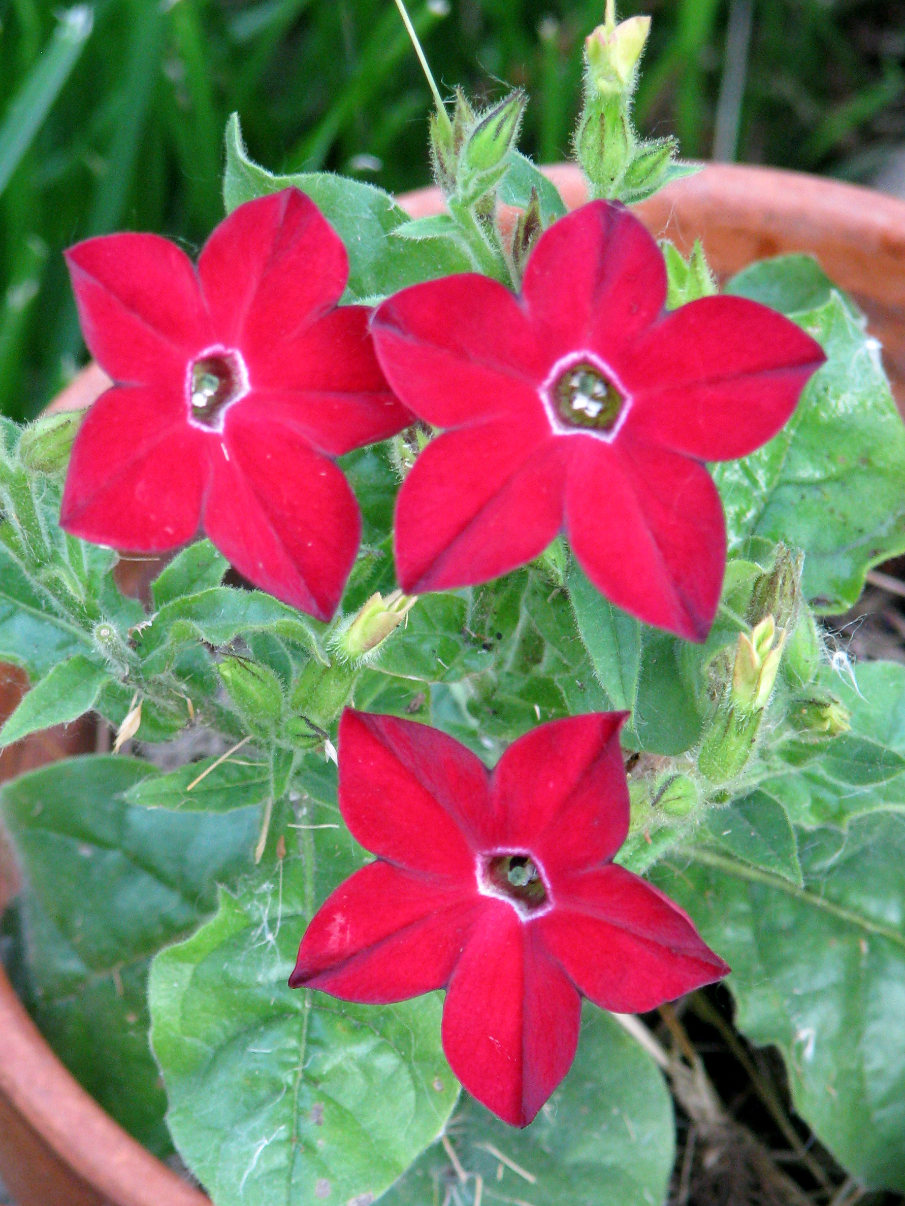 Deep red Nicotiana alata (Flowering Tobacco).